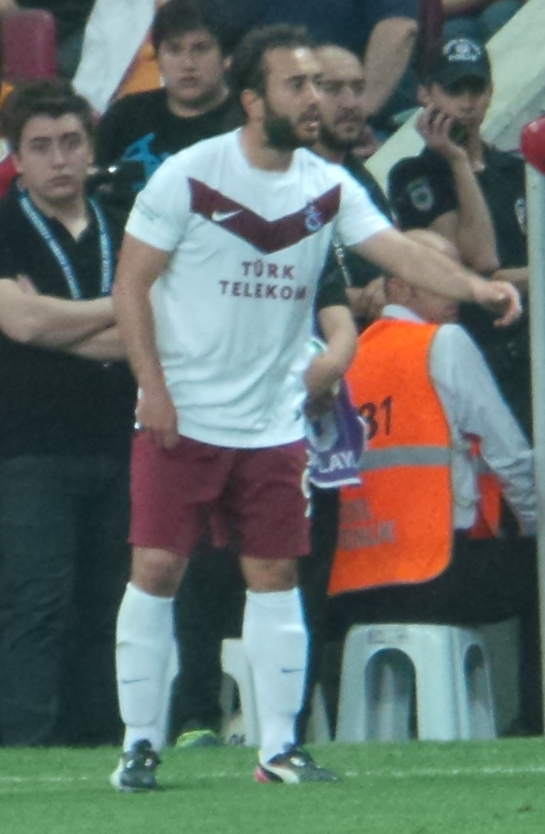 Olcan Adın @ TT Arena